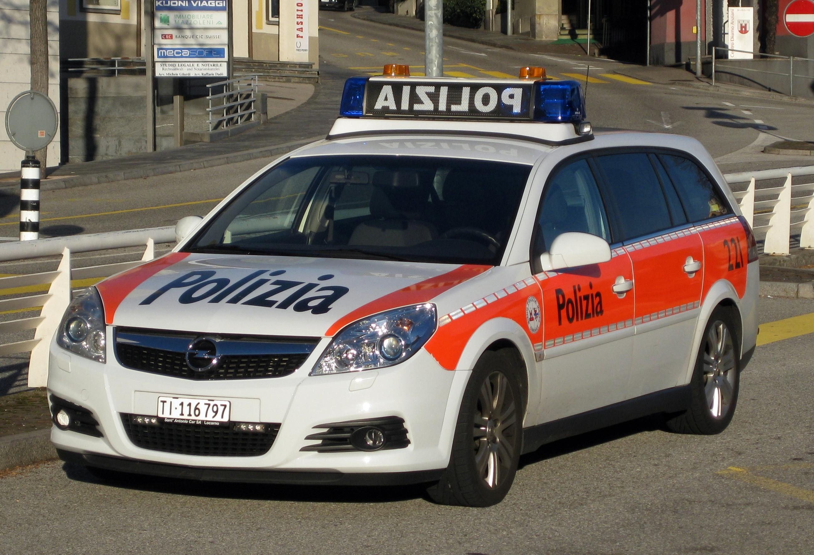 Locarno at the Lake Maggiore, canton of Ticinio, Switzerland (italian speaking part of Switzerland): Opel Vectra C Caravan used as a Police-Car (Corpo di Polizia di Muralto e Minusio